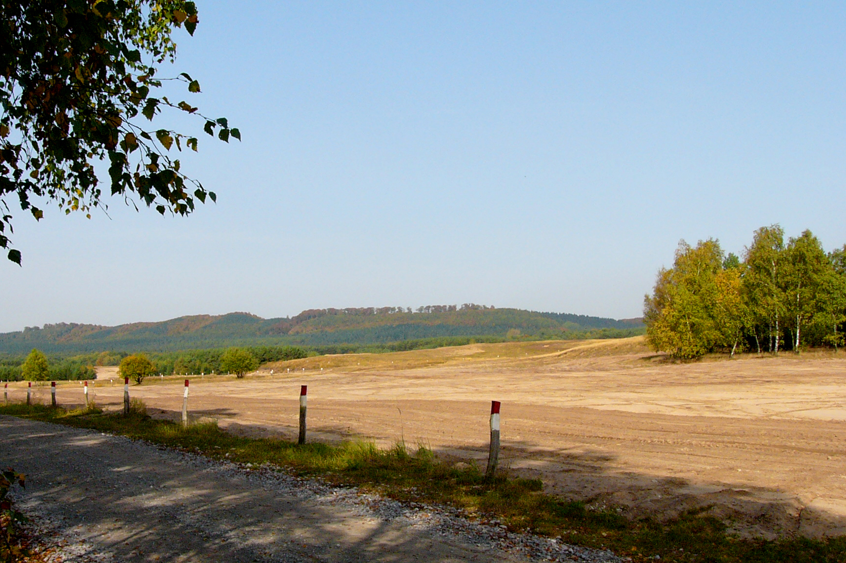 Dunes of Augustdorf within the Military Training Area Senne